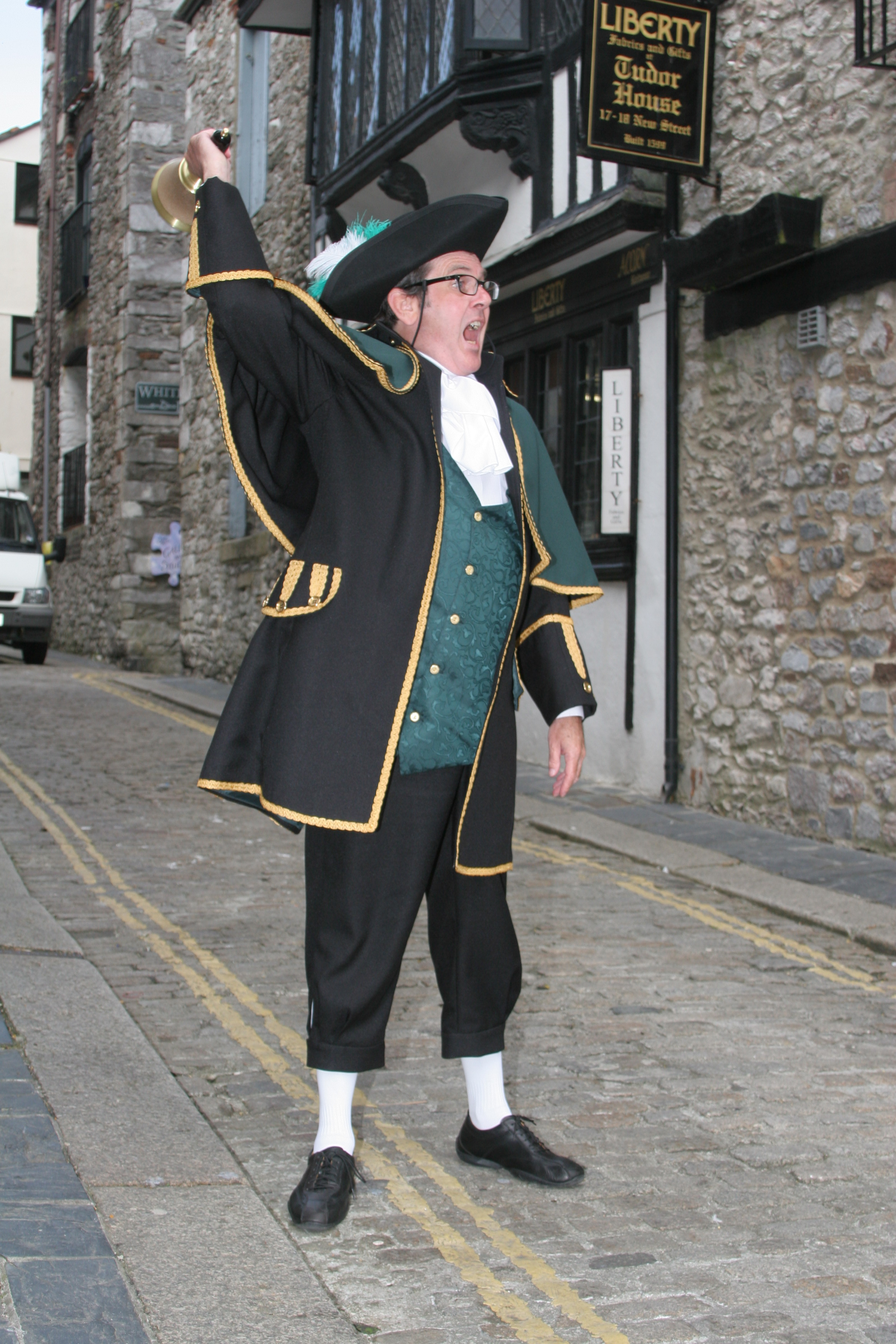 The town crier walking along New Street in Plymouth in Devon, England, UK.